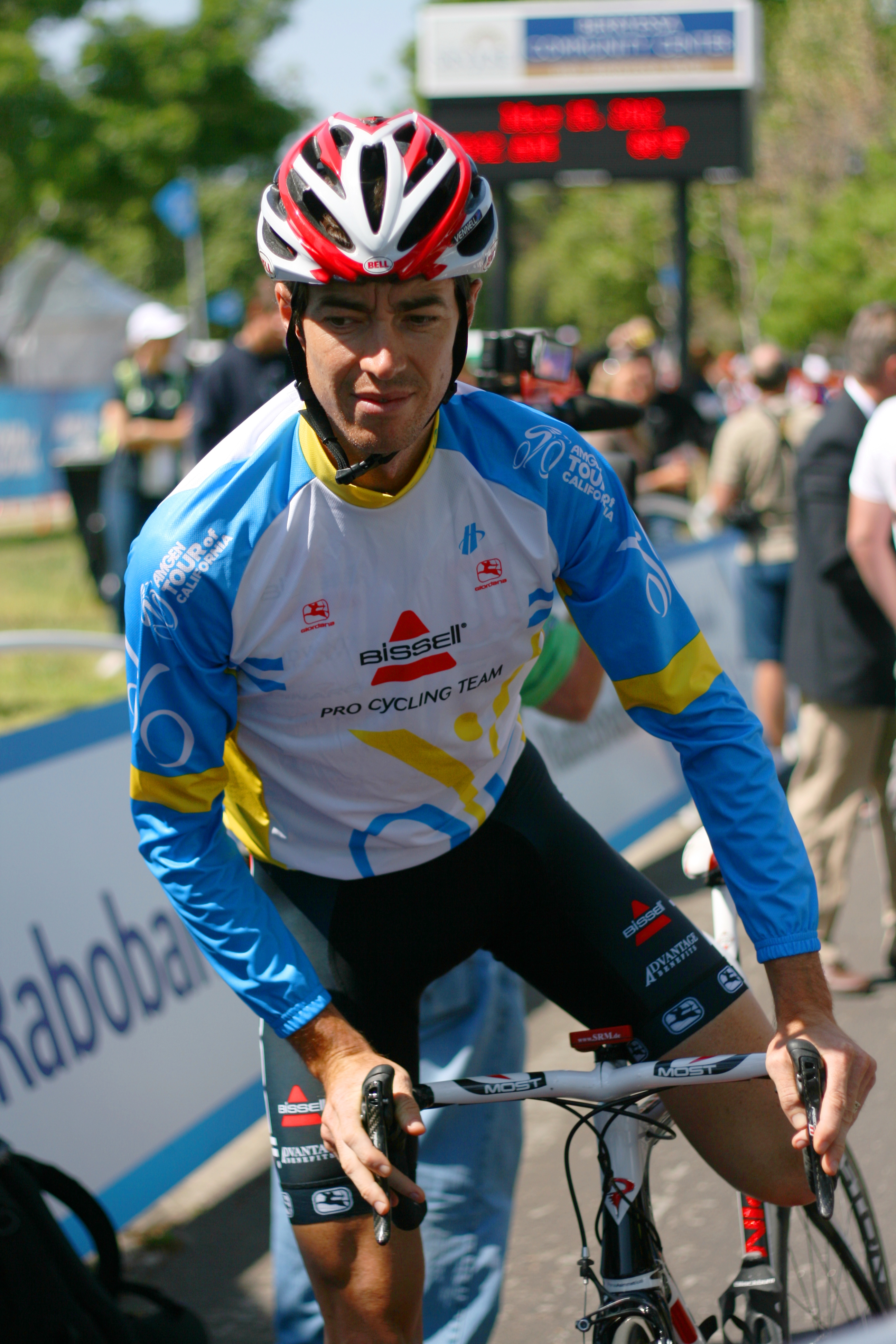 2012 Amgen Tour of California Stage 3 start, Berryessa Road, San Jose, CA